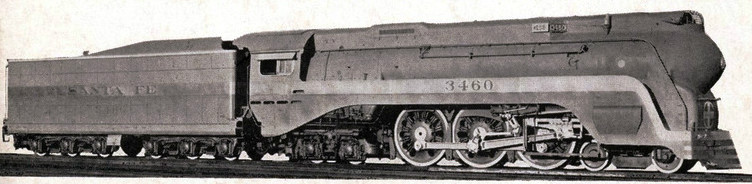 Photo postcard of two Baldwin steam locomotives purchased by the Santa Fe Railway. The passenger locomotive is a 4-6-4 "Hudson" type.